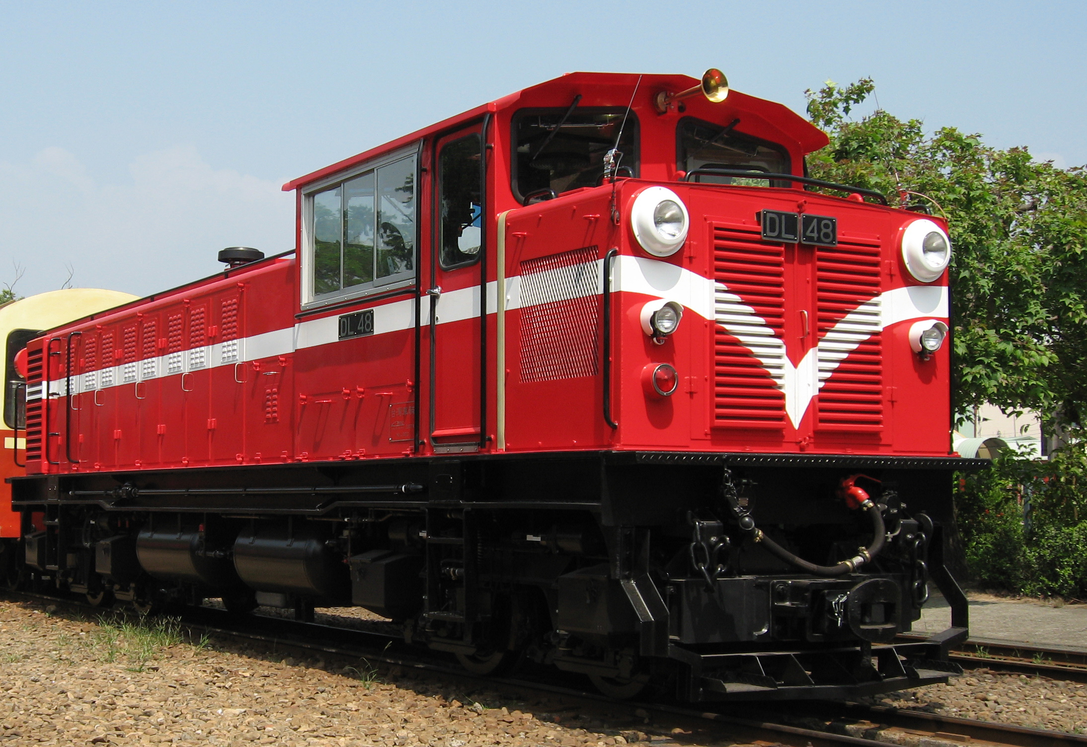 Alishan Locomotive DL48 made by Taiwan Rolling Stock Co., Ltd.